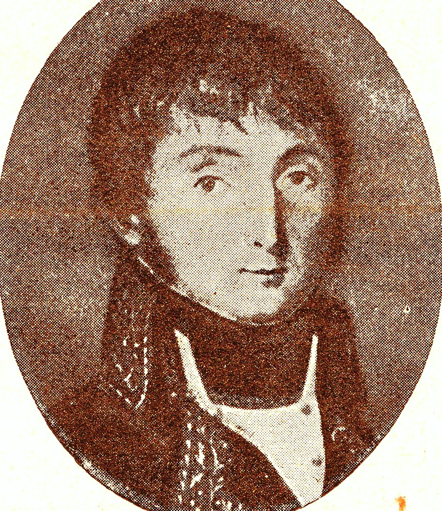 Officier Dedem van den Gelder